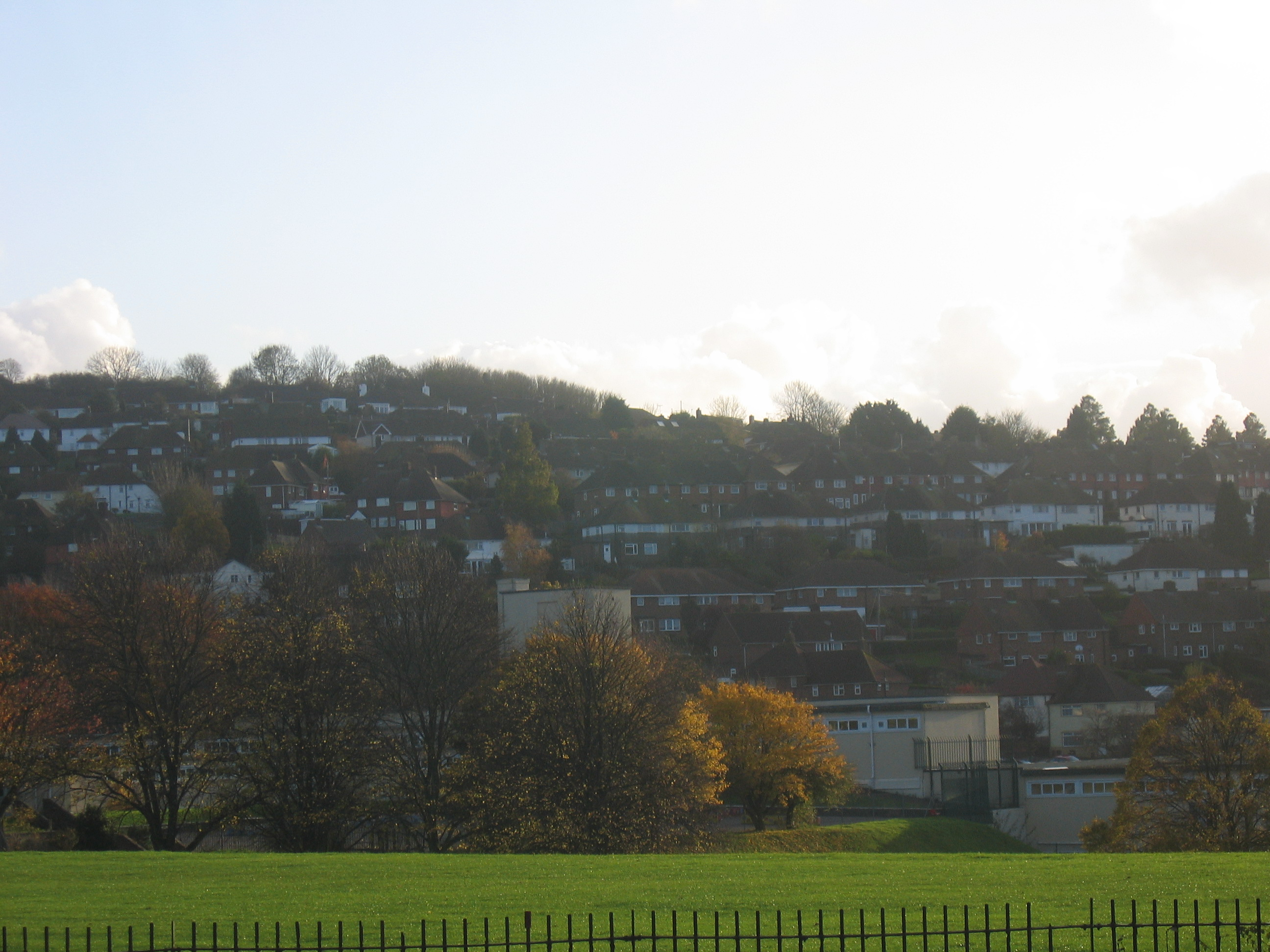 View of the Hollingbury housing estate with Carden School in the foreground, looking South West from Carden Hill near the junction with carden Avenue.